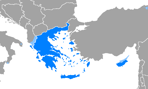 Regions where the Greek language is the official language - Greece and parts of Cyprus Where it is de jure and de facto official. (Republic of Cyprus and Greece). Where it is unofficially spoken.